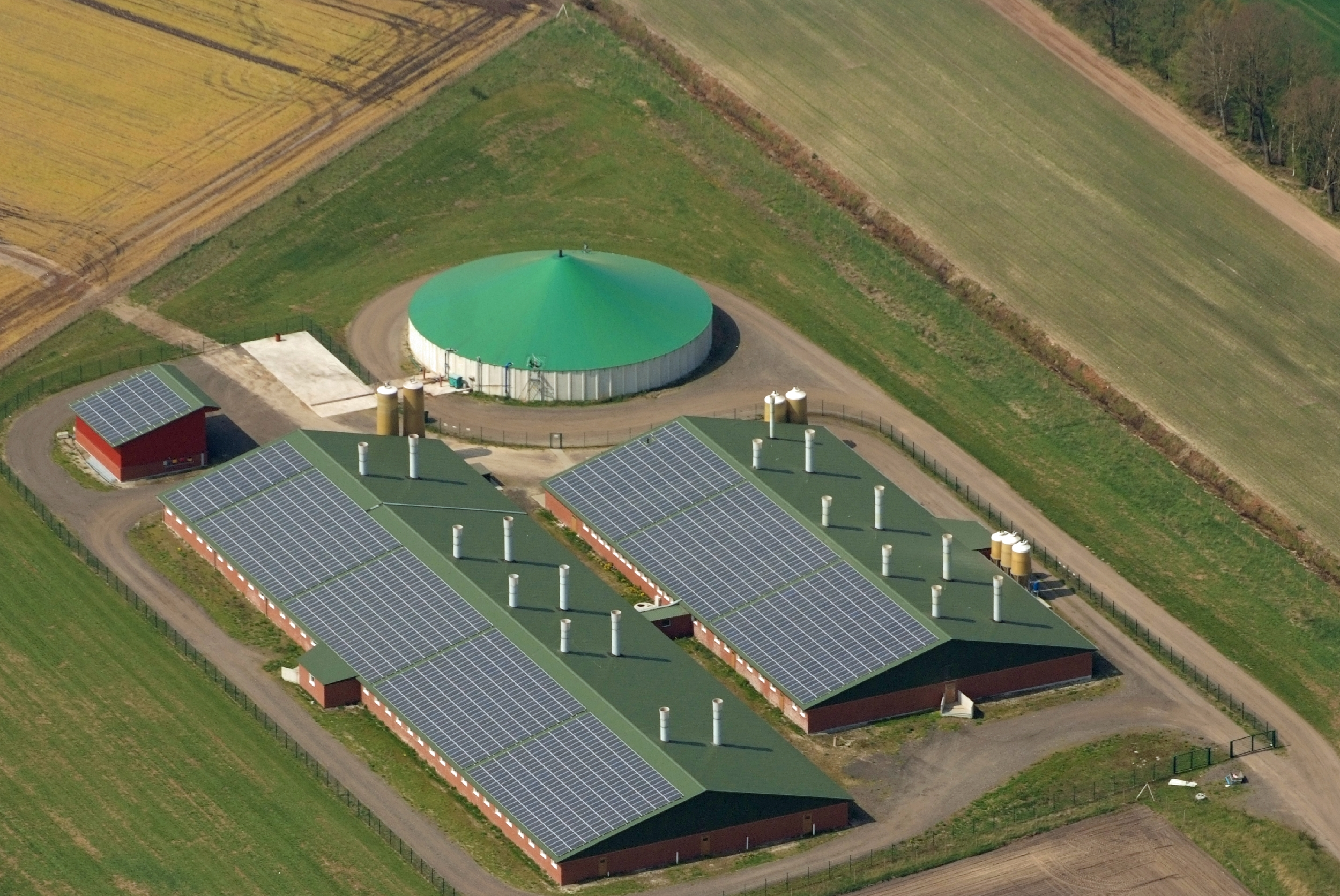 Photo-flight from Nordholz-Spieka to Oldenburg und Papenburg